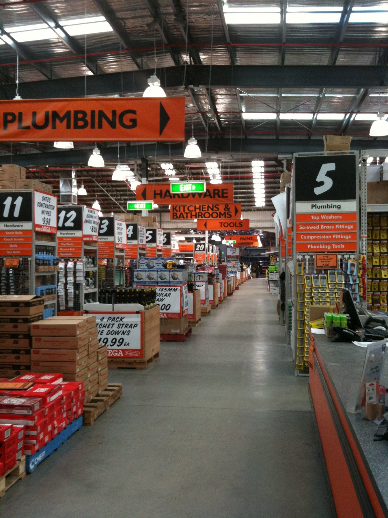 The interior of Mitre10 MEGA's Pakenham store